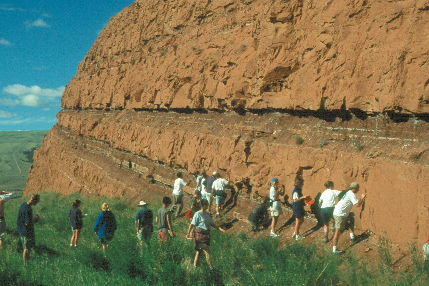 Outcrop of Triassic Chugwater Formation near Thermopolis. Taken 1997.